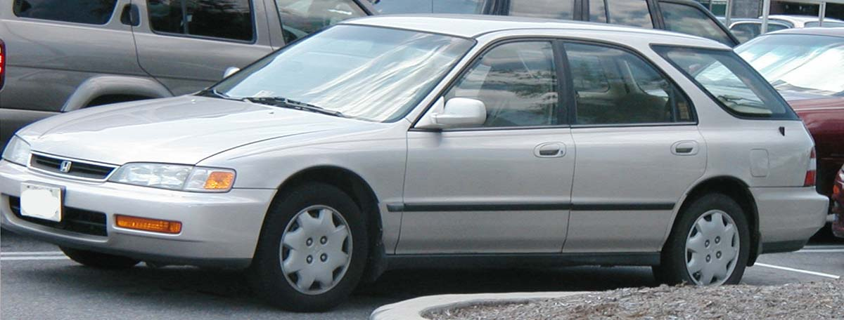 1996-1997 Honda Accord wagon photographed in USA.